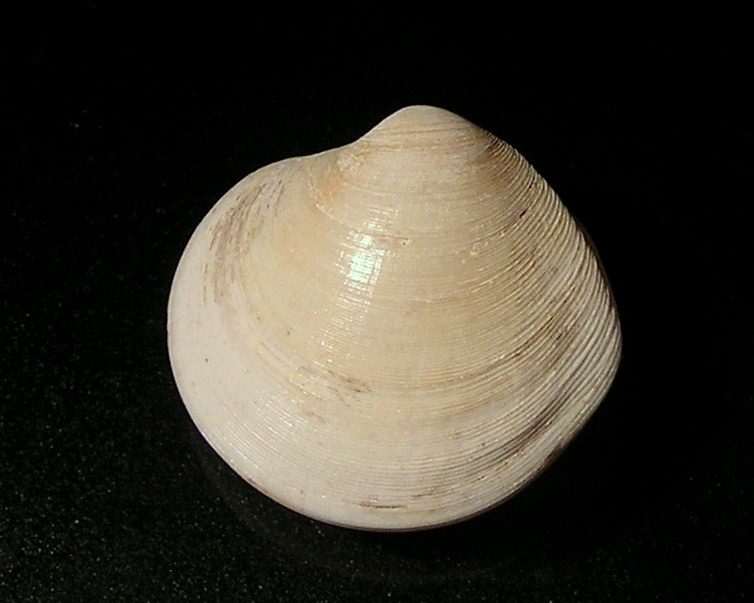 Dosinia exasperata R. A. Philippi, 1847 , a bivalve from the family Veneridae; South China Sea